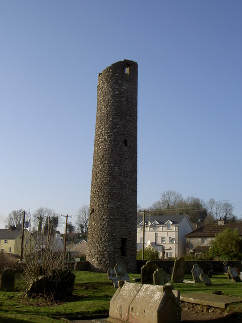 Clones Round Tower Clones Round Tower is a 70ft tower located in the middle of St. Tierney's Cemetery which was built in the 10th century. The cap was lost gradually between the years 1591 and 1741.